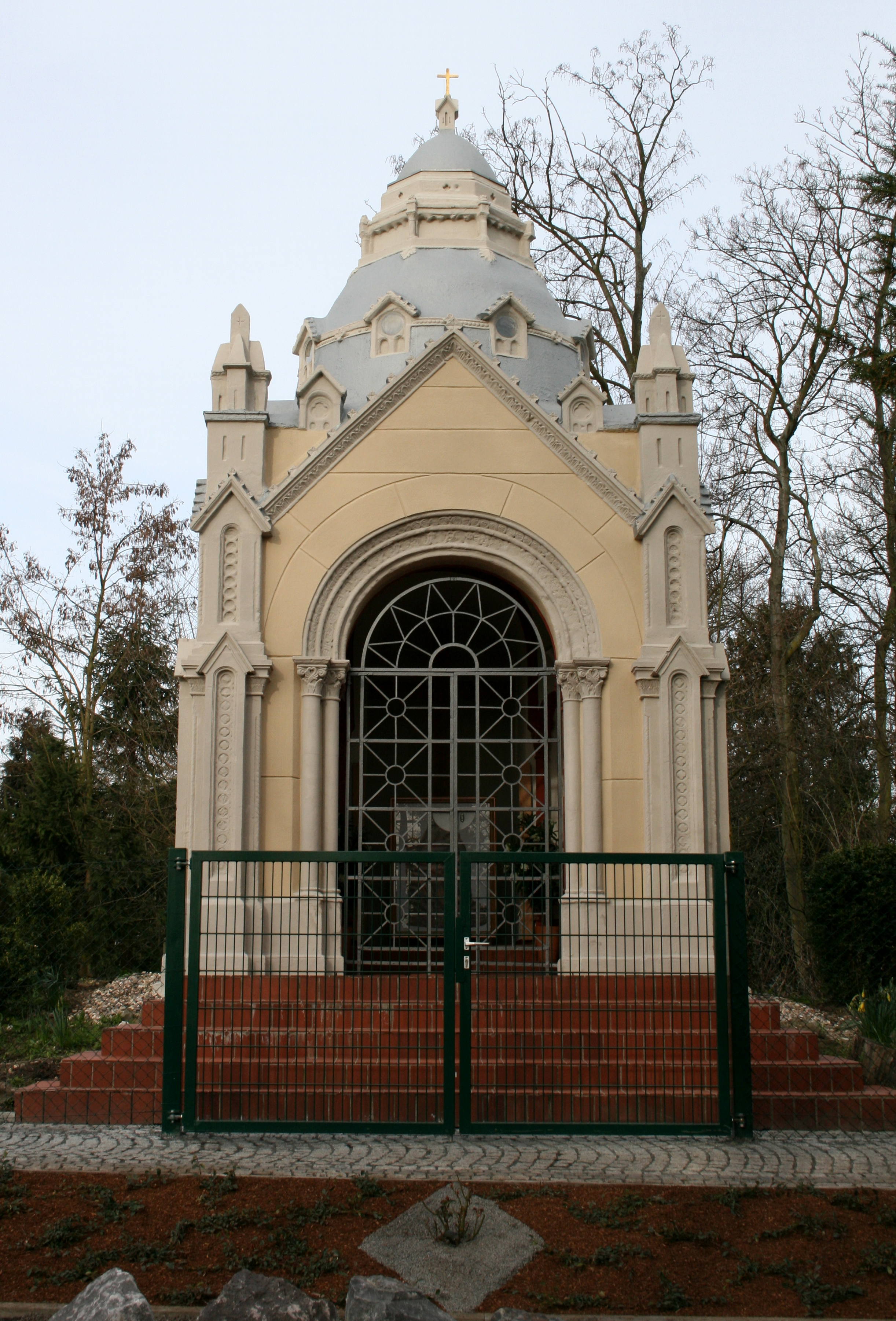 Germany, Bonn: Kreuzberg Church; friends chapel next to the church.